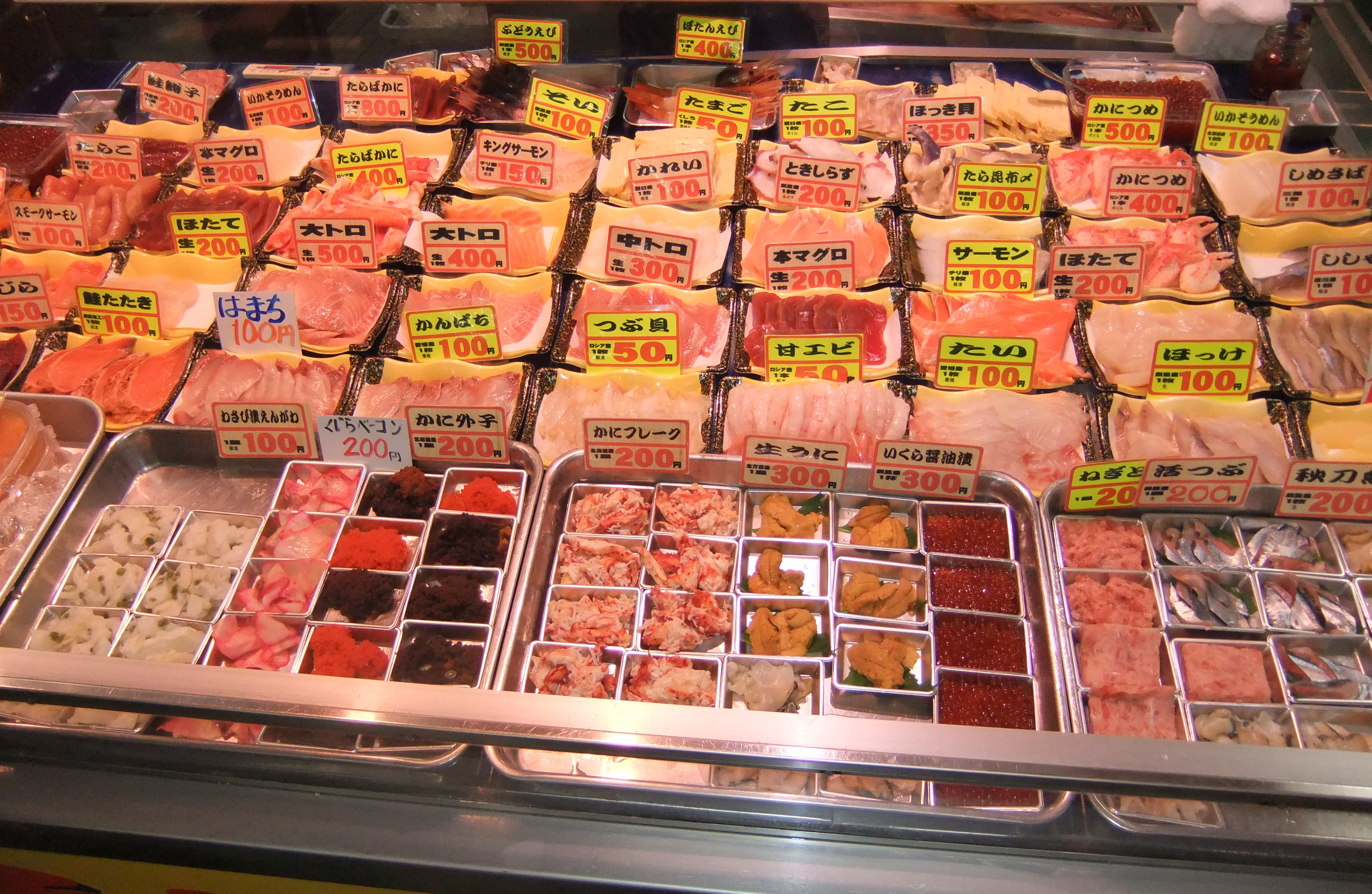 Kattedon, Washo Market, Kushiro, Hokkaido.